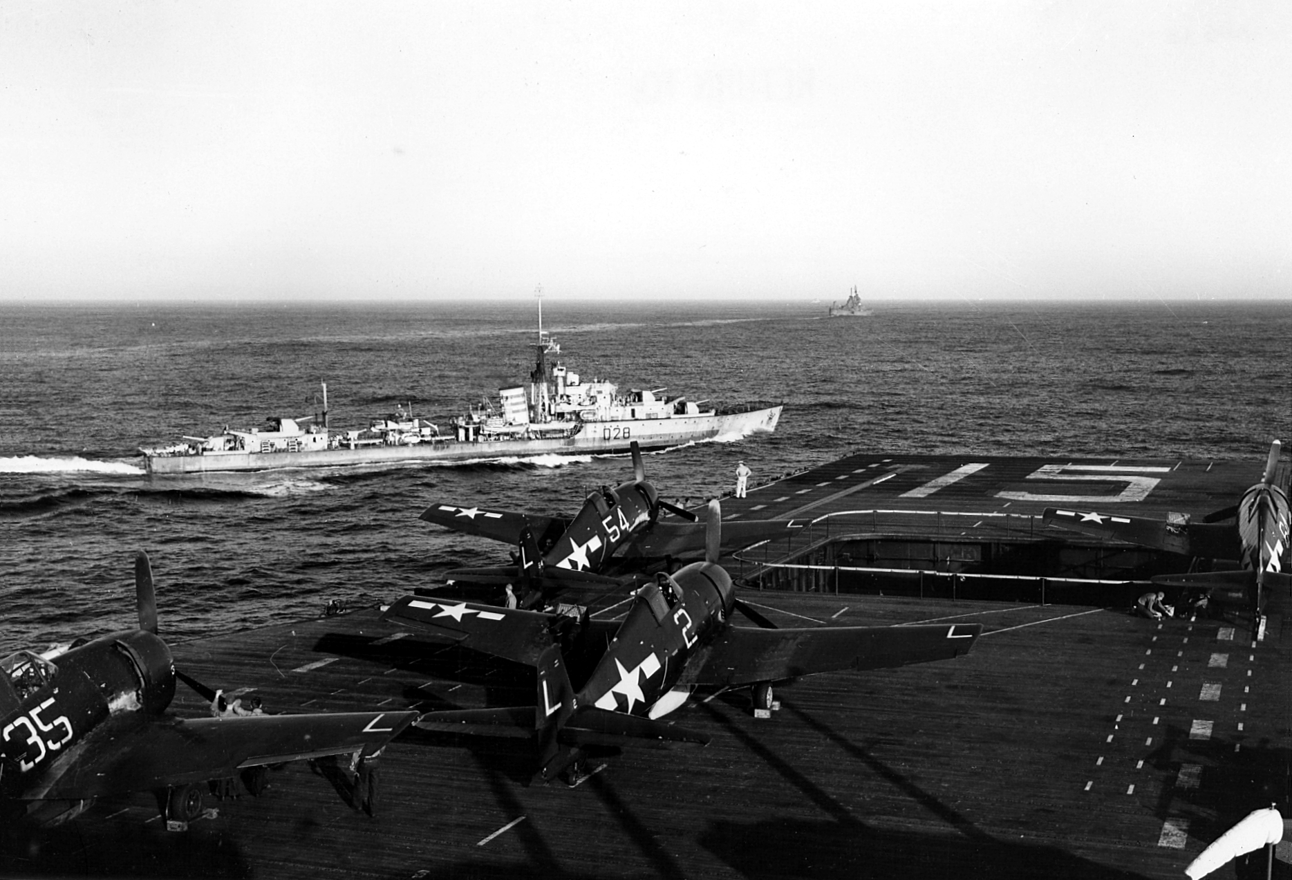 View of the forward flight deck of the U.S. Navy aircraft carrier USS Randolph (CV-15) off Japan, in August 1945. Grumman F6F-5 Hellcat fighters of Fighting Squadron 16 (VF-16) are visible on deck. Note that the Hellcats wear the new air group identification letter "L", replacing the eartlier geometric schemes. The British Pacific Fleet destroyer HMS Urchin (D28) is crossing in front of the carrier.